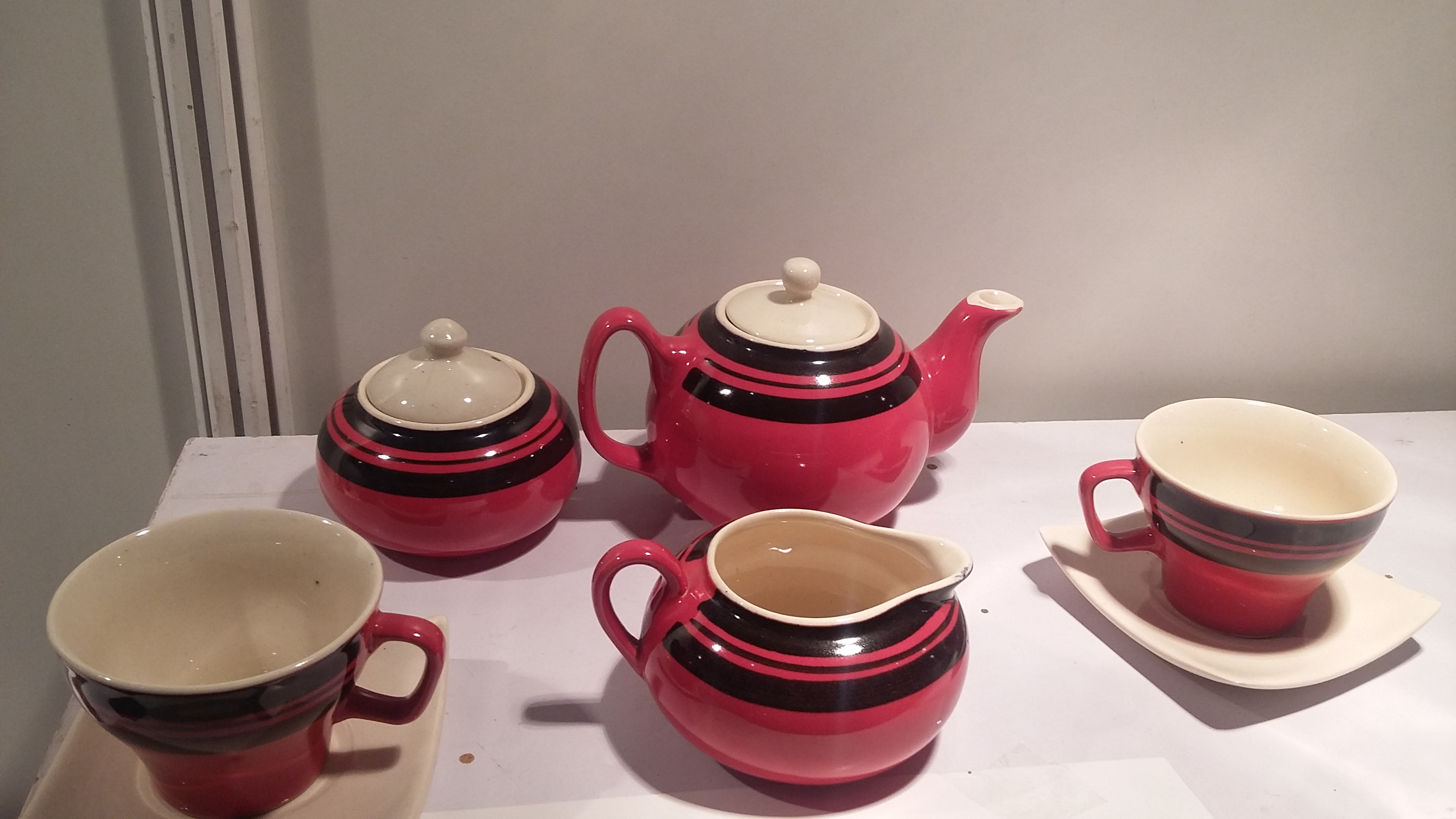 Khurja Pottery is traditional ceramic pottery art with relief work using earth colours like orange, brown and terracotta worked on to a white background, giving them a rich artistic appearance. The highly creative and artistic products include decorative items tableware, utensils, and the like, rich in both composition and quality. Khurja city is now famous for its Khurja Pottery and ceramics. Khurja supplies a large portion of the ceramics used in the country, hence it is sometimes called The Ceramics City. The history of Khurja Pottery goes back to around 14th century, when some retreating (wounded) soldiers from Timur's army decided to stay back. Most of these soldiers were potters and they brought their art of pottery with them. Starting with red clay pottery they moved on to blue glaze and on red clay articles with engobe of white clay, painting floral designs with cupric oxide and applying a soft glaze containing glass and borax etc. During World War II, ban was imposed on various metals for making household utensils and import of ceramic goods was drastically curtailed. To meet the demand of ceramic wares mainly for war hospitals, the Government of Uttar Pradesh established a ceramic unit. After the war, the factory was closed down in 1946 due to lack of demand of its products. The factory was equipped with three small kilns, two chimneys and three ball mills. The Government of Uttar Pradesh made a thoughtful consideration for the utilization of the available machinery, other capital items and instead of closing it down, converted into a Pottery Development Centre. It was the first pottery related to common facilities Center in the country where entrepreneurs were provided the facilities for firing their green wares in the Government kilns.